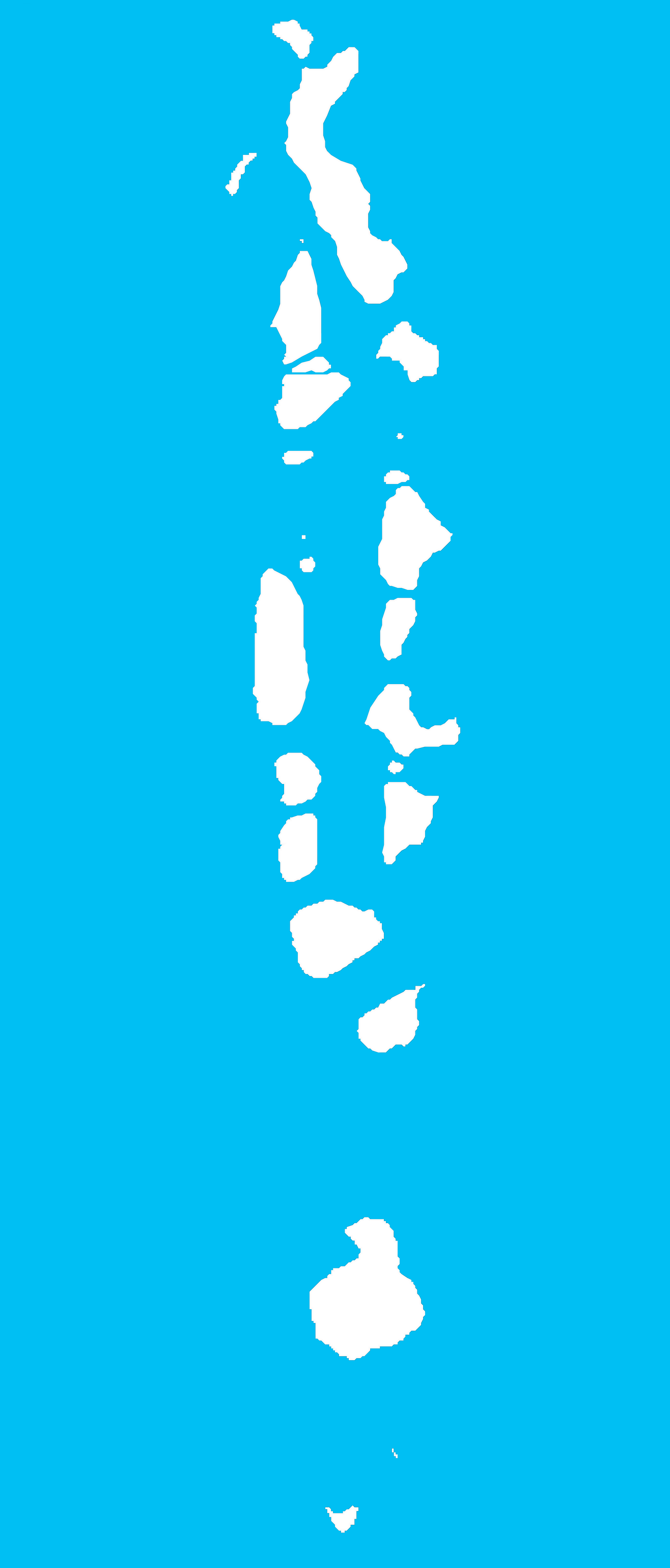 Plain Map of Natural Atolls of Maldives